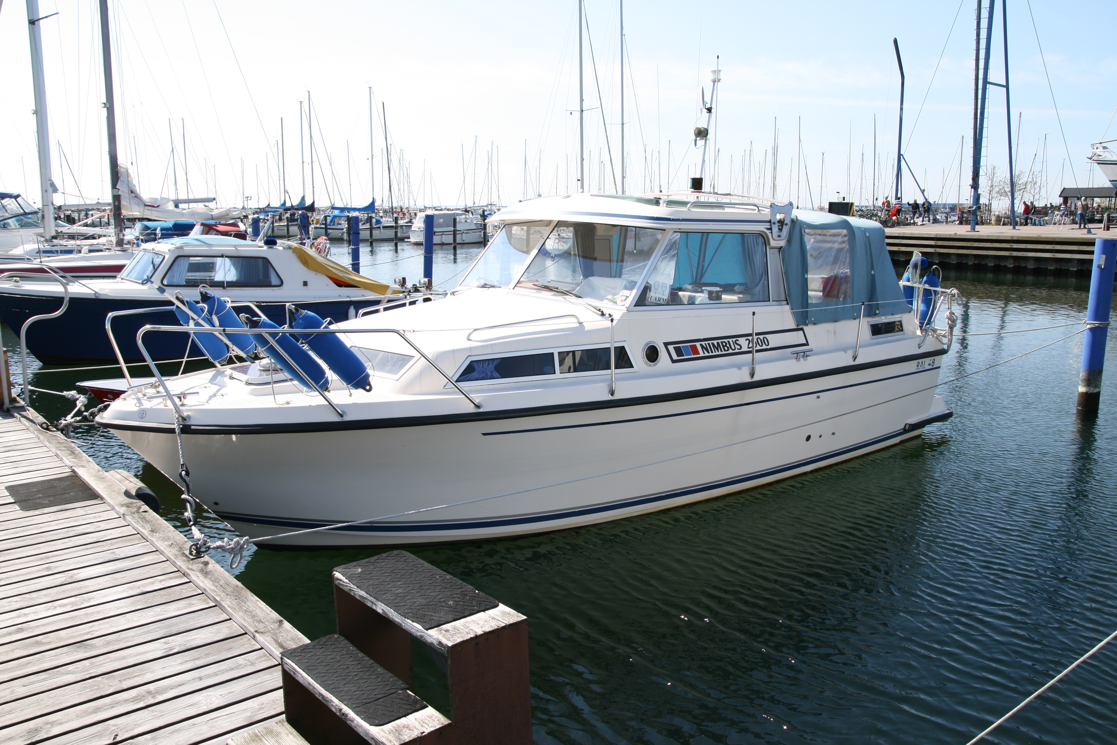 A Nimbus 2600 motorcruiser, found in the Råå marina south of Helsingborg, Sweden.